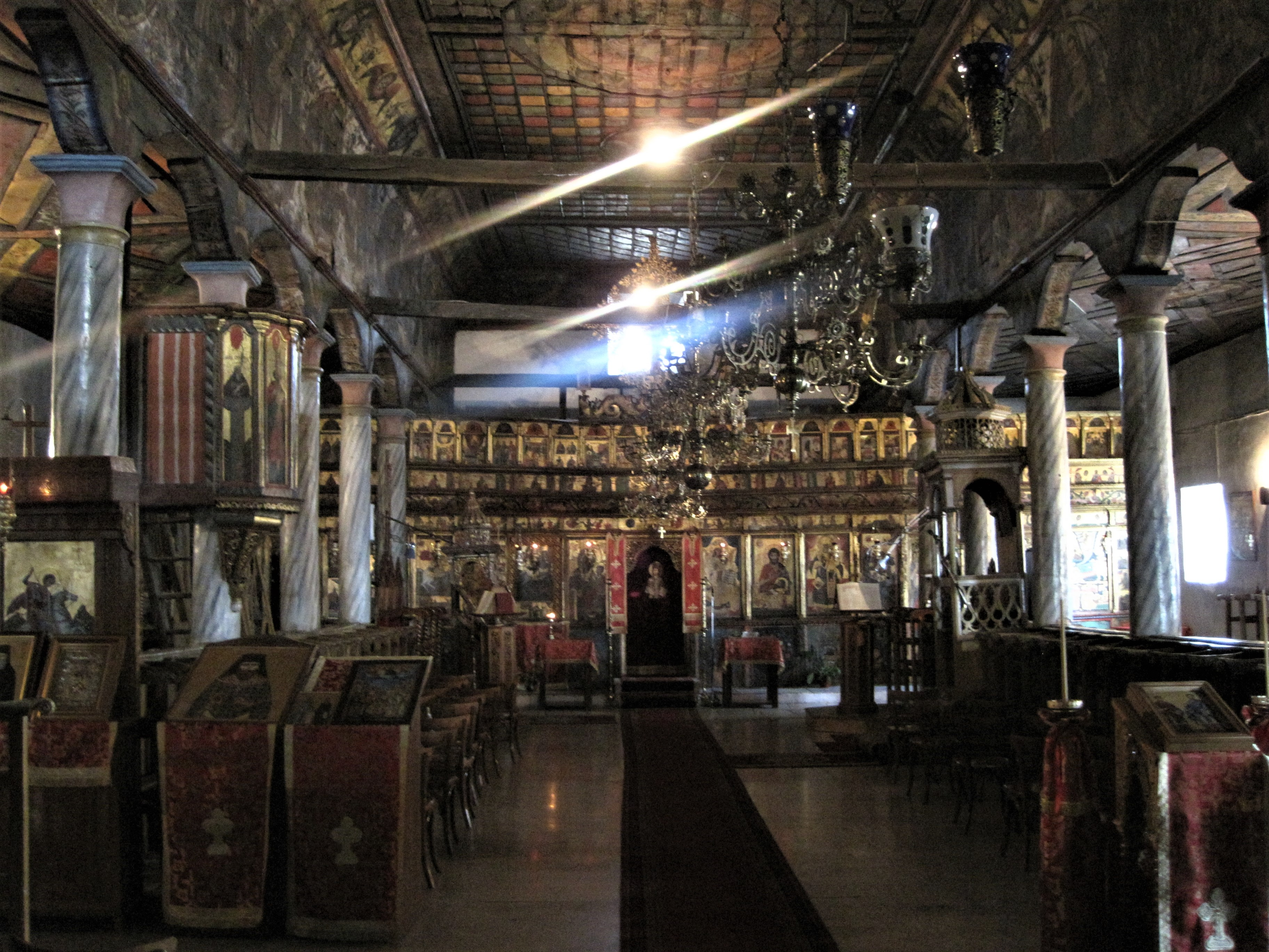 The naos of the St. George church in Kukush